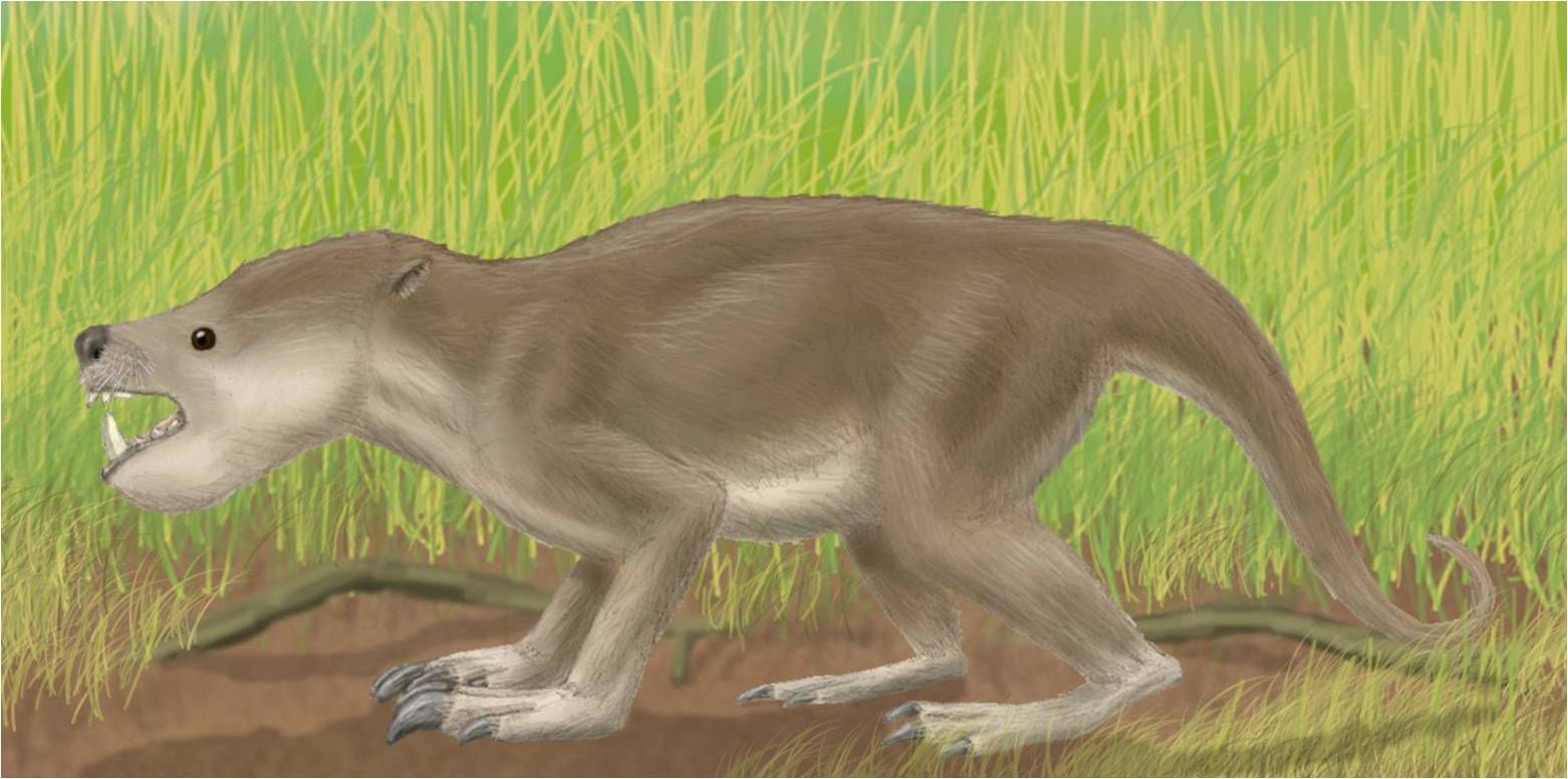 Life restoration of Psittacotherium multifragum.